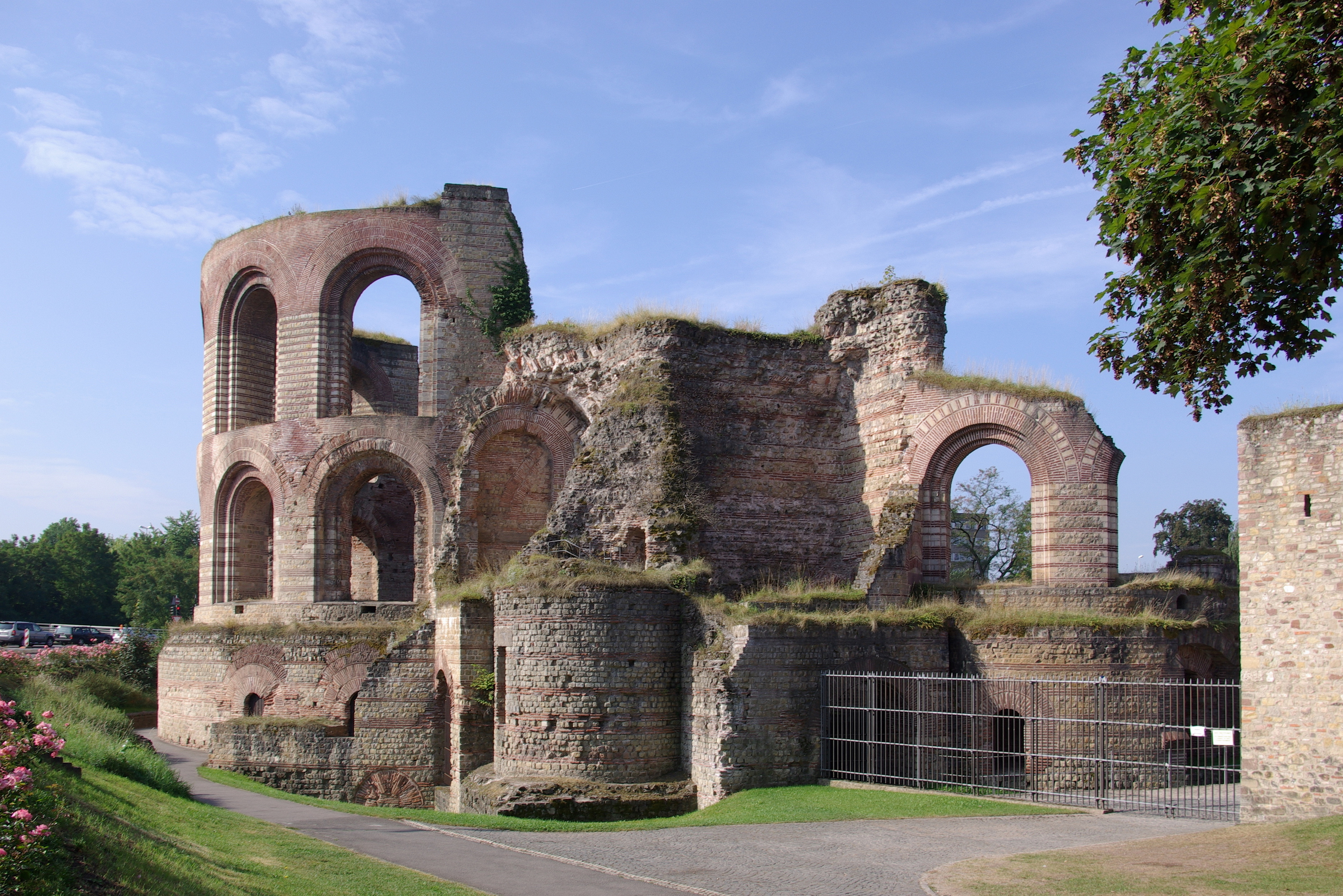 Imperial thermæ in Trier.